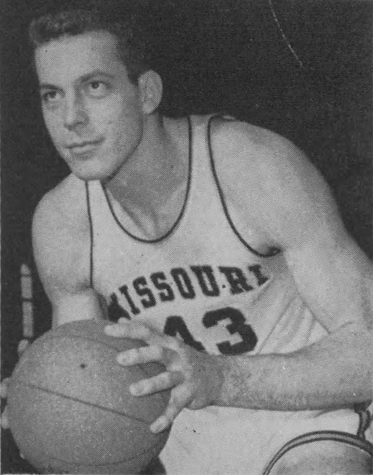 American college basketball player Bill Stauffer of the University of Missouri Tigers during the 1950-51 season.